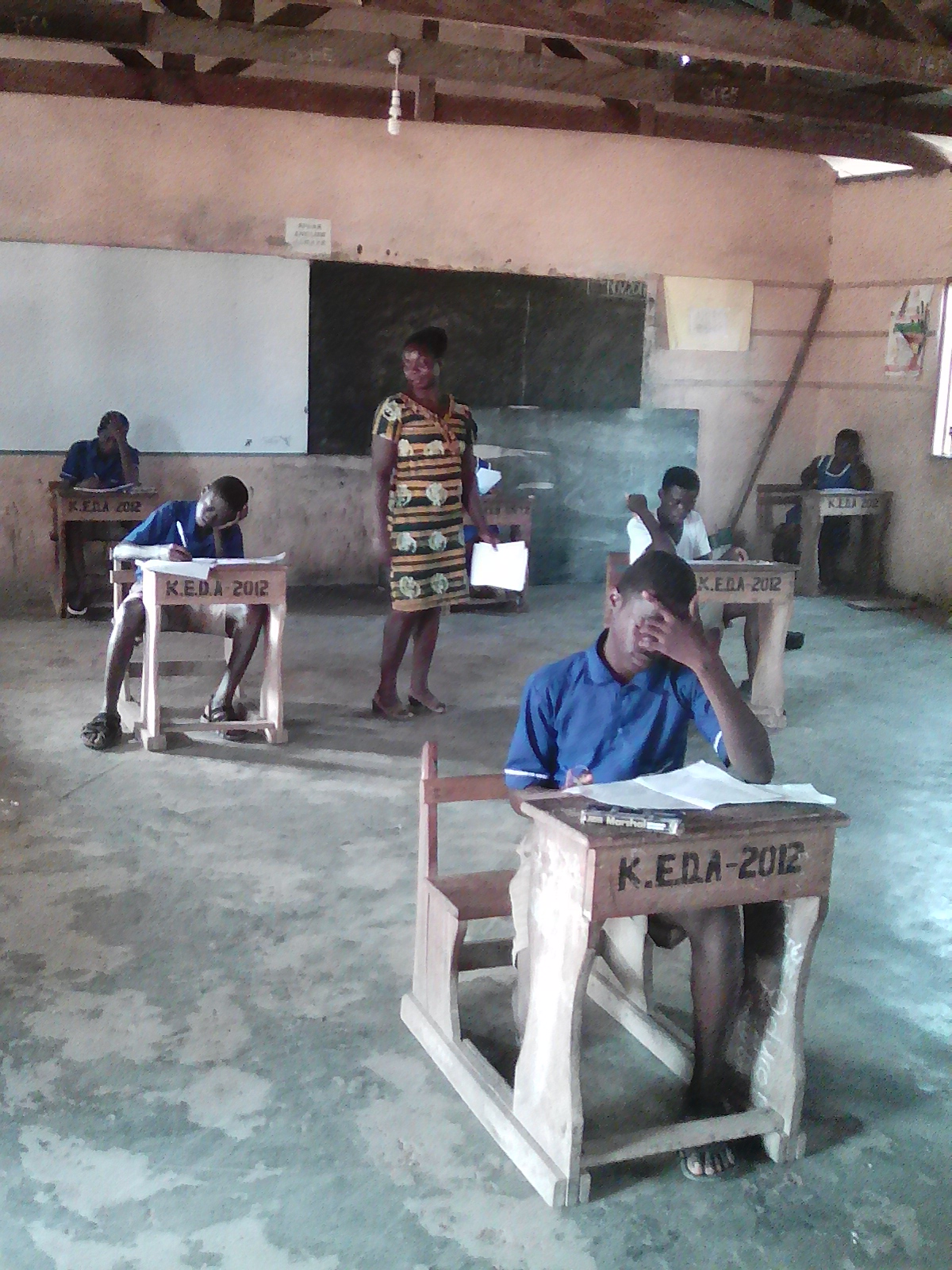 A female teacher invigilating pupils of kwahu Tafo presby Jhs.Ghana This is an image of "African people at work" from Ghana